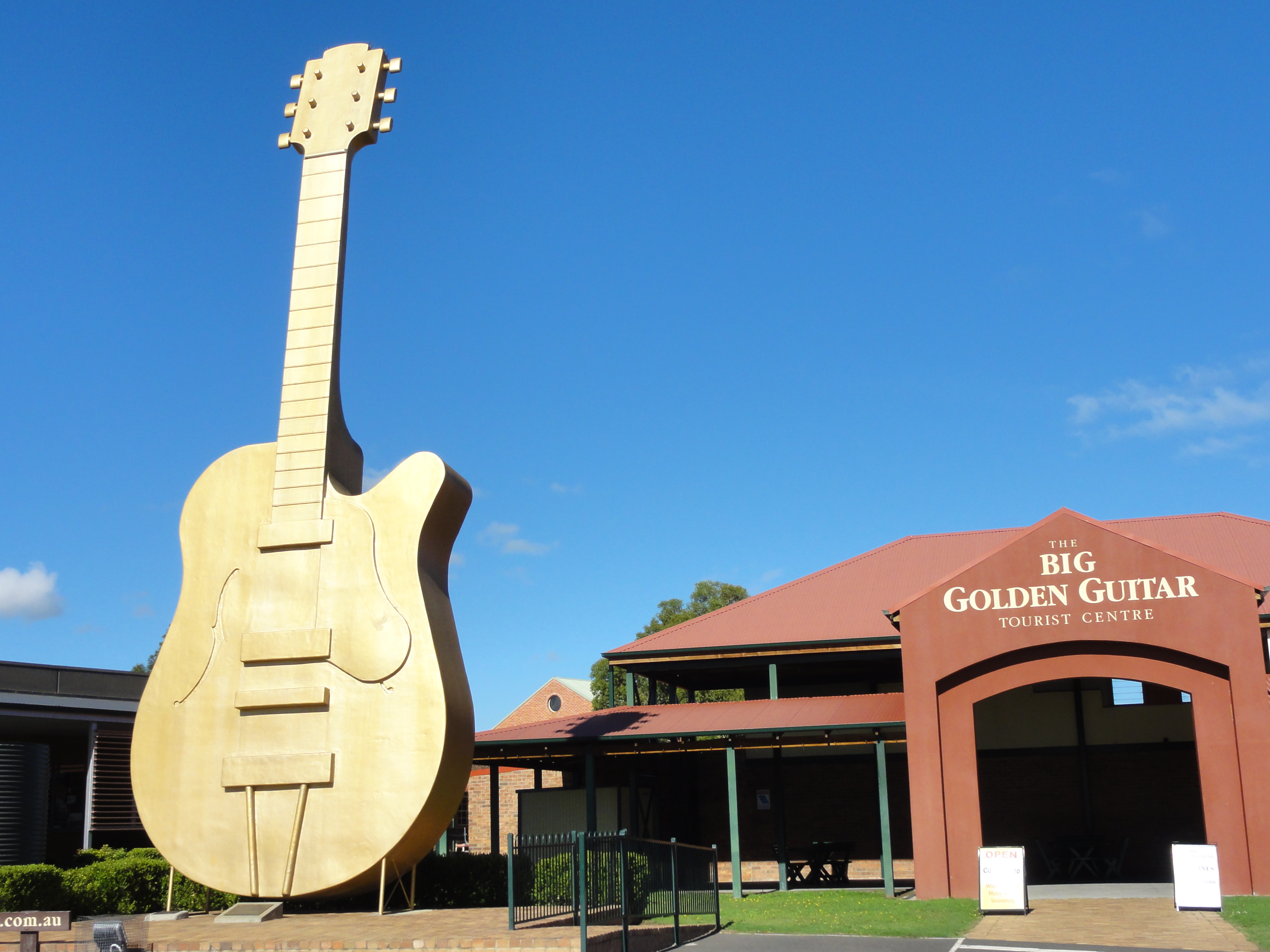 Aussie Country Music Hall